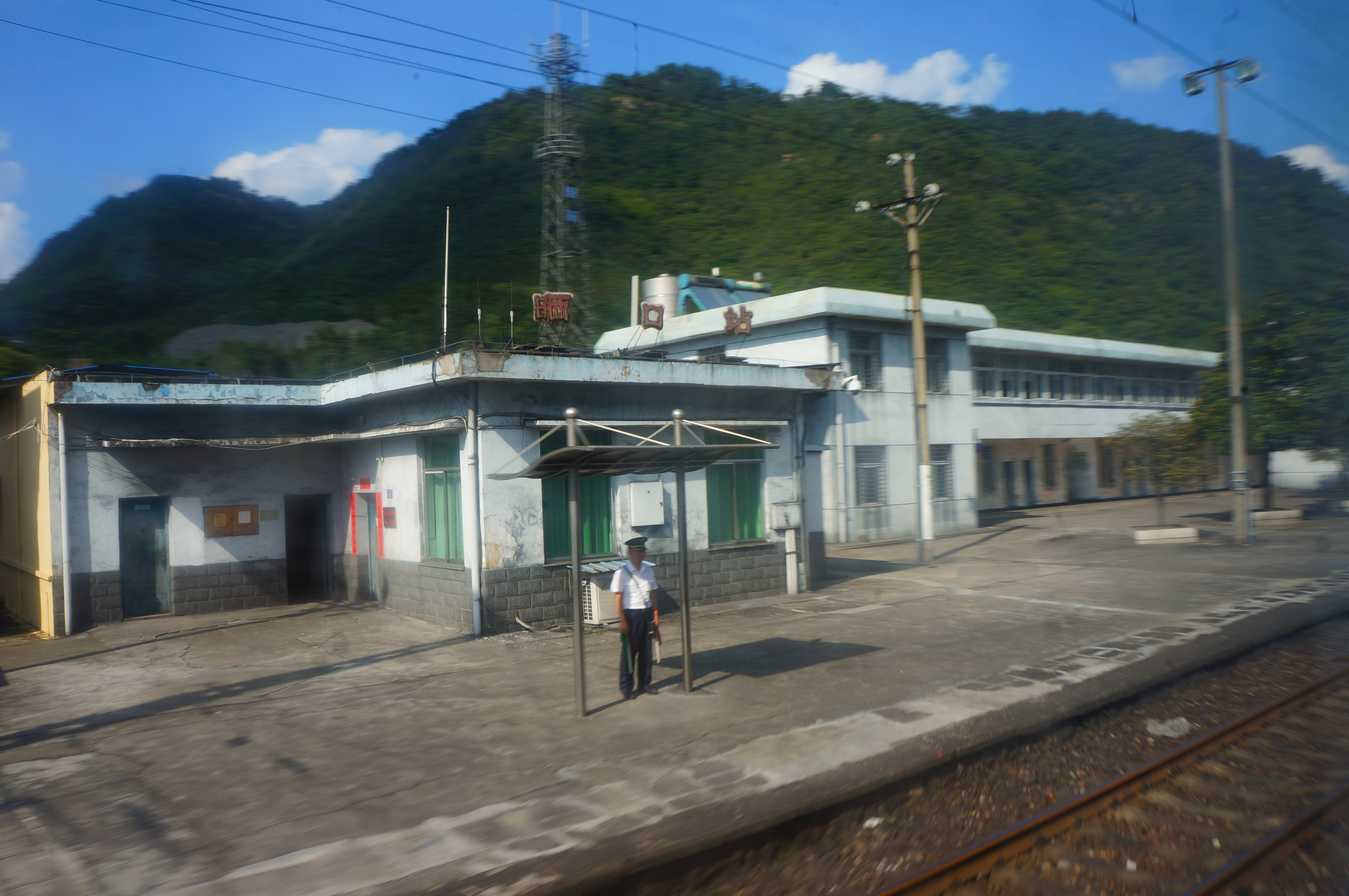 201806 Station Building of Shaikou Station